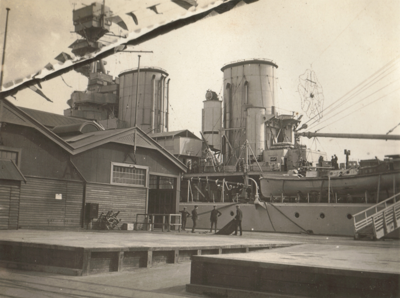 HMS Renown, "A" Shed, Fremantle Harbour, Western Australia, during the visit of the Duke and Duchess of York to Perth.